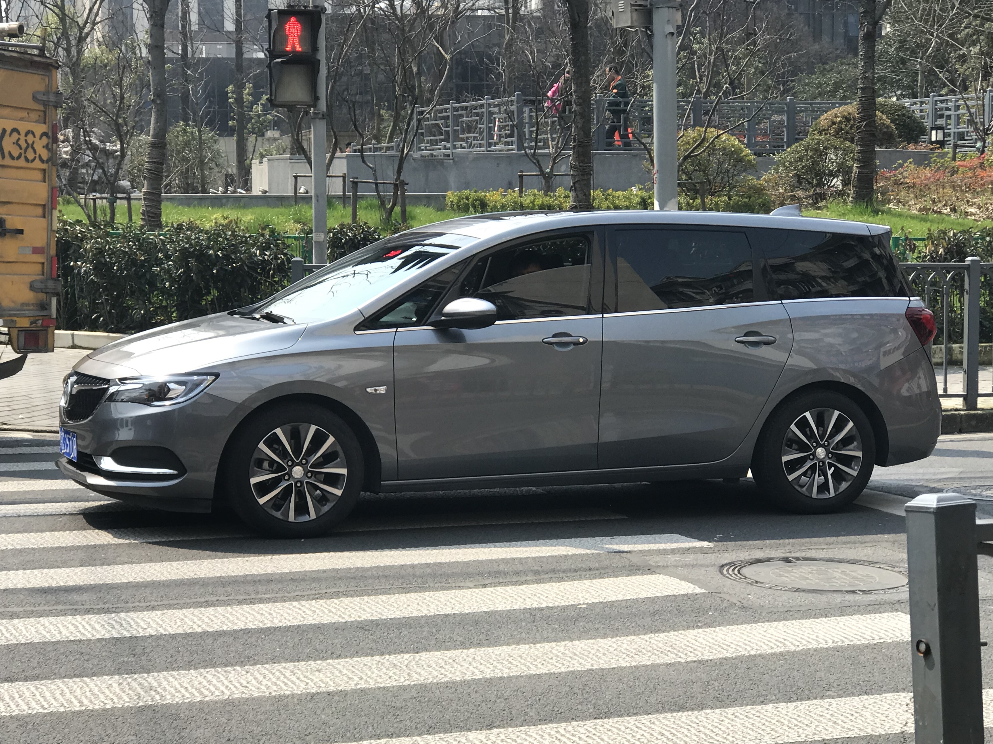 Buick GL6